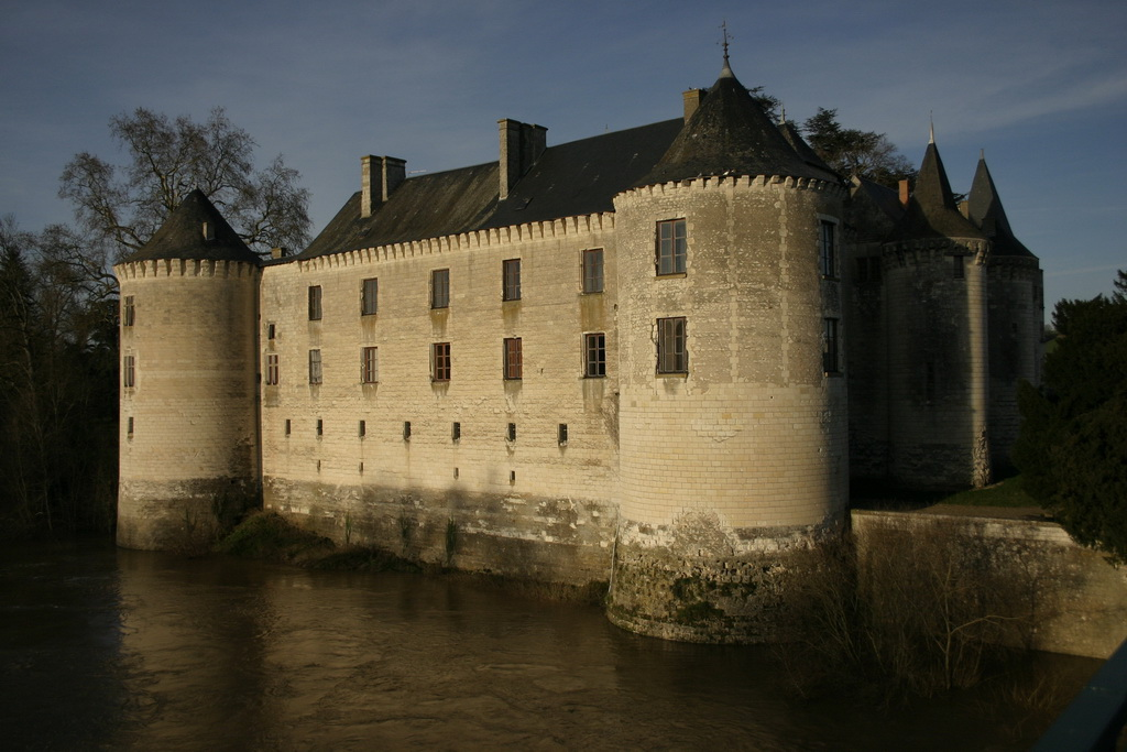 Summer 2016